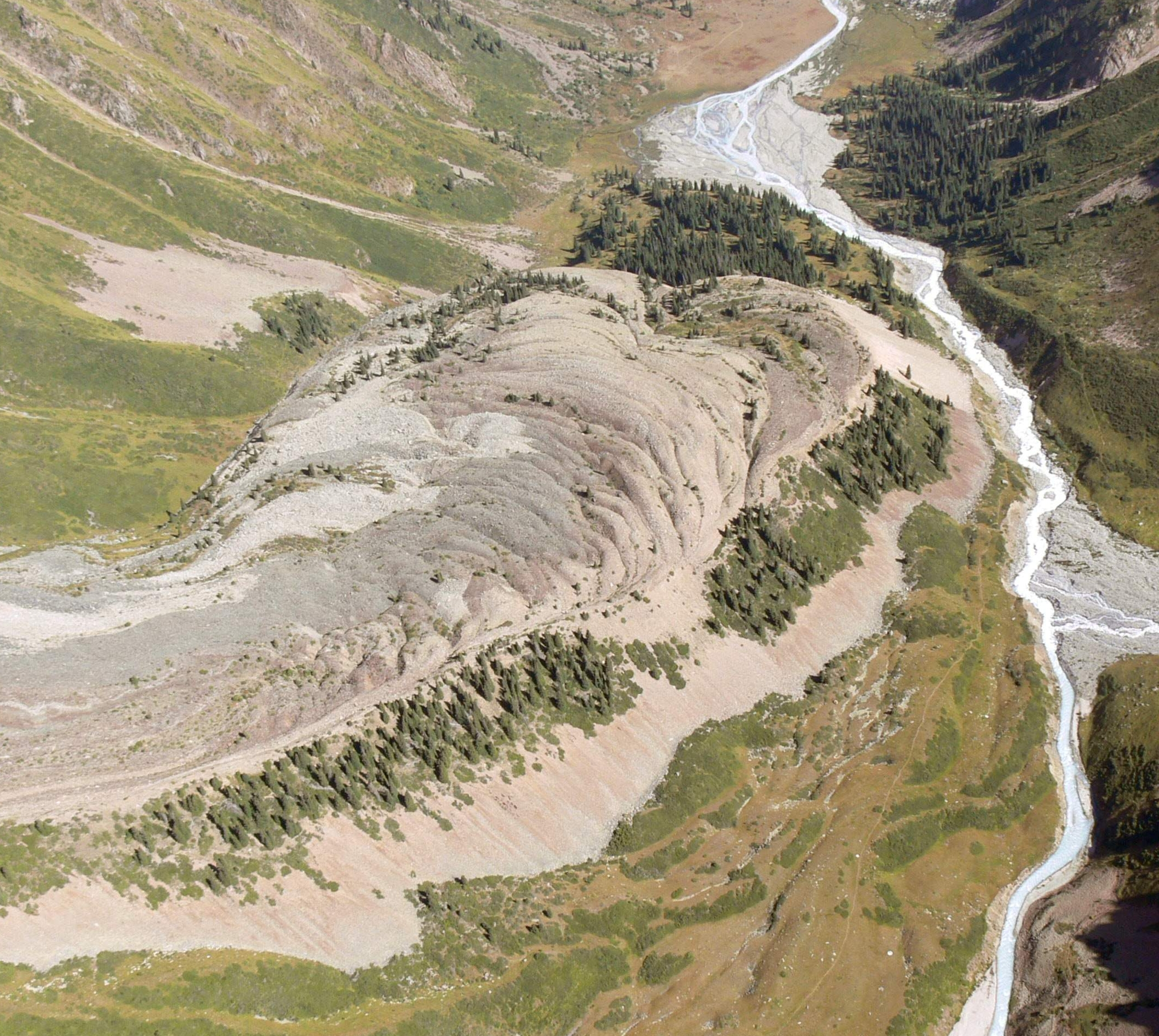 Rockglacier 'Ordshonikidze' in Left Talgar valley (August 2006)